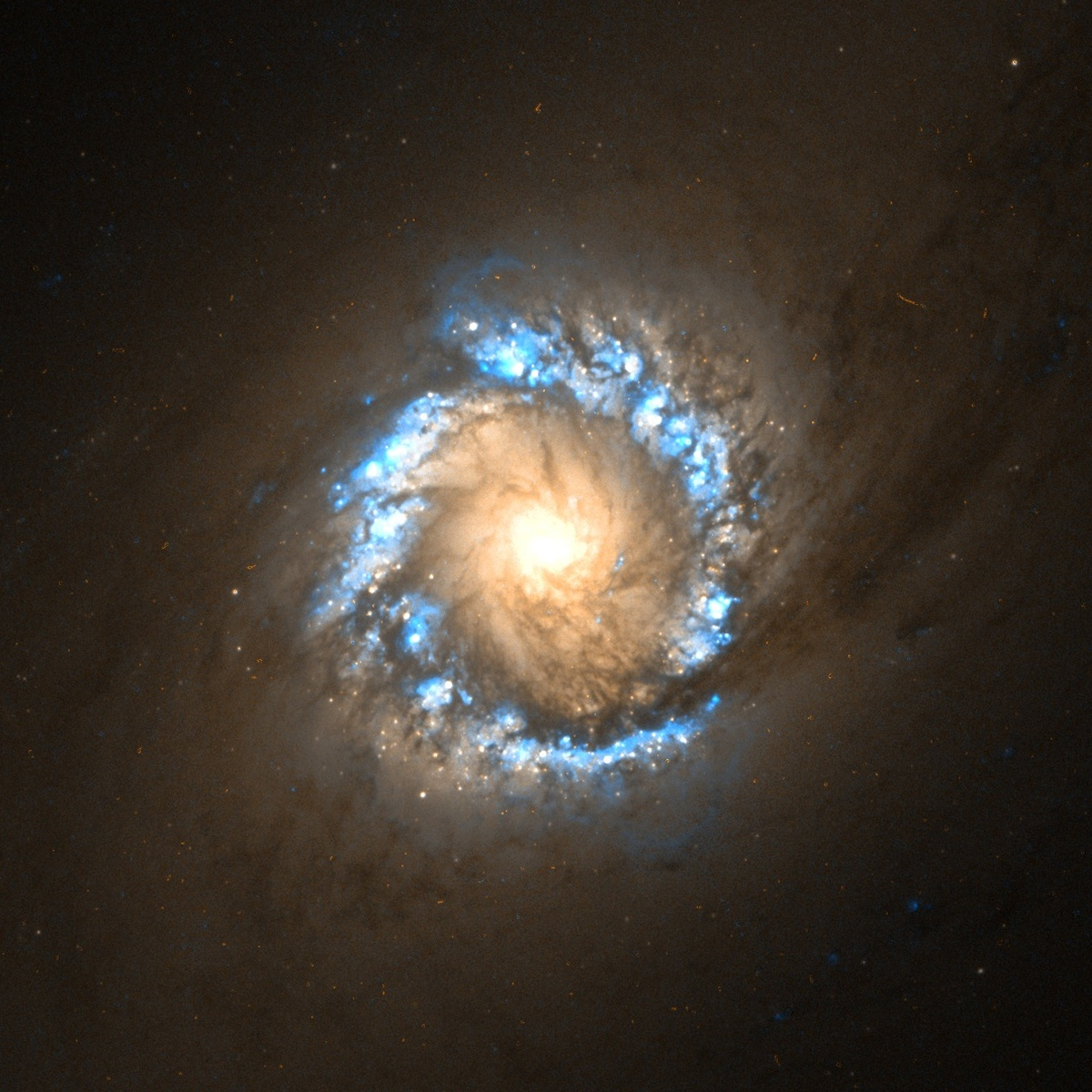 Star forming region around NGC 1097's nucleus by Hubble Space Telescope